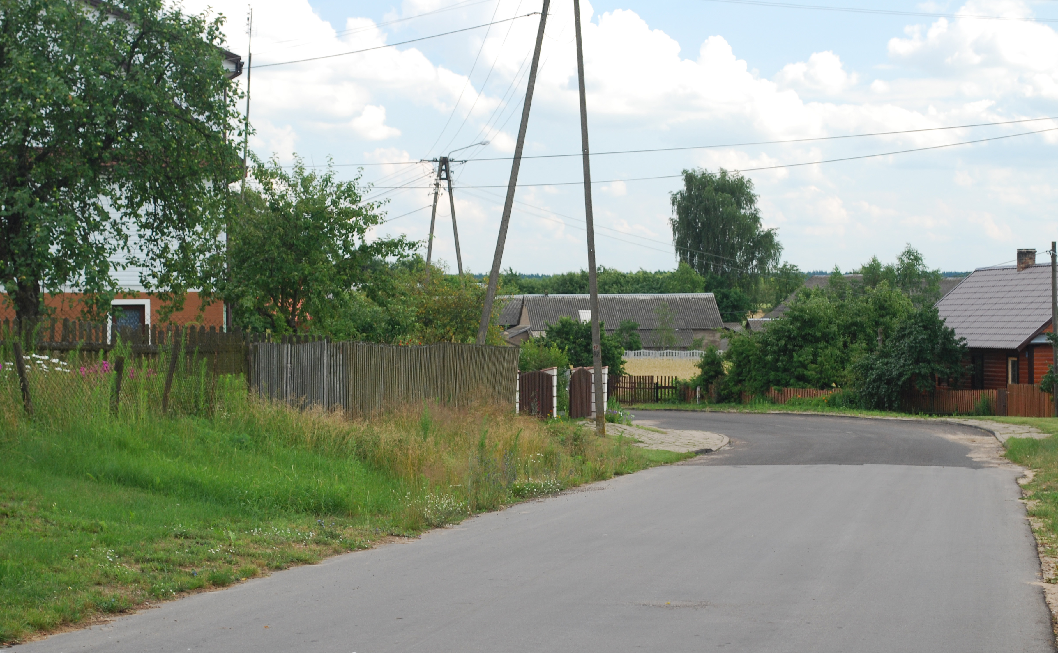 This photo from Podlaskie Voievodeship was taken during Polish Wikiexpedition 2009 set up by Wikimedia Polska Association. The making of this document was supported by Wikimedia Polska. Ulica w Istoku